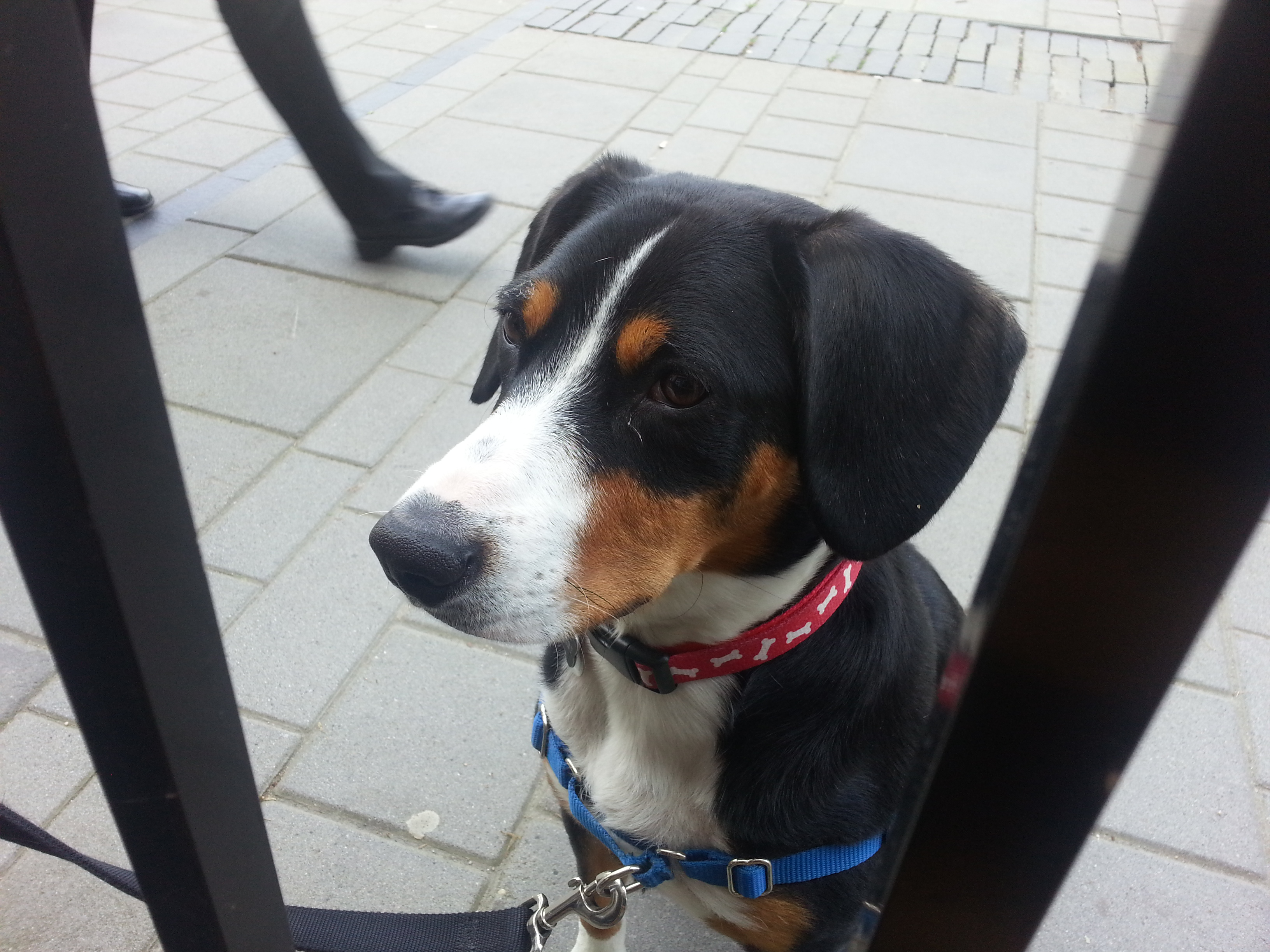 Entlebucher puppy at eleven months of age.